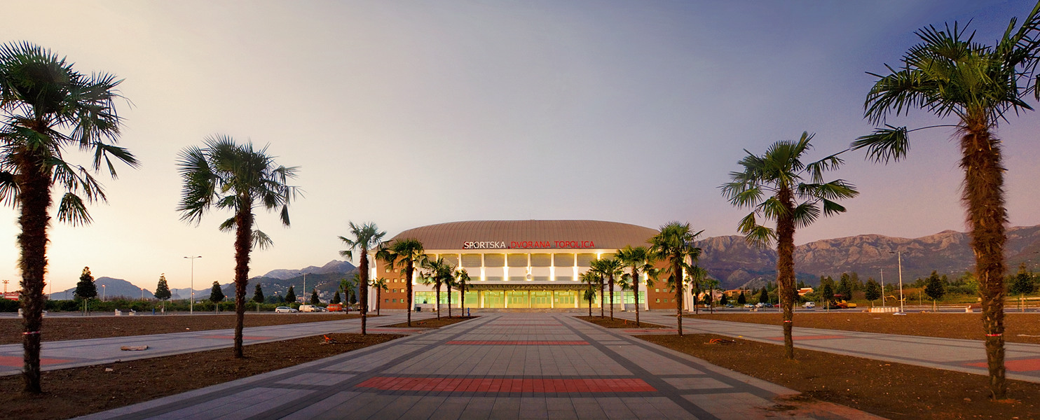 Indoor arena Topolica in Bar which has the capacity of up to 4200 seats.